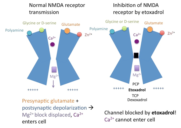 Normal vs. etoxadrol-inhibited NMDA receptor transmission